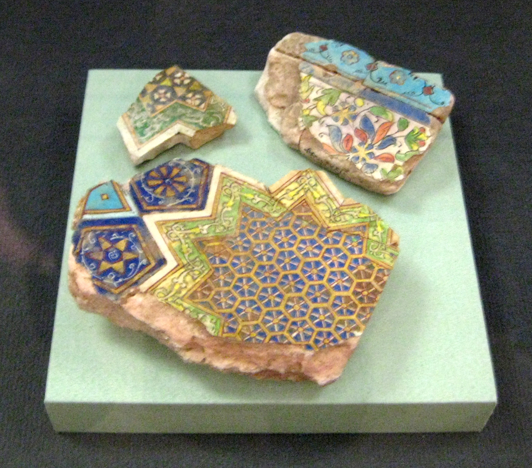 Fragments of tilework from a Ghengisid palace. Golden Horde, Sarai (city). Ceramics, paint over glaze, mosaic, gilding. Selitrennoe settlement, excavations of 1980s. State Historican Museum of Russia.